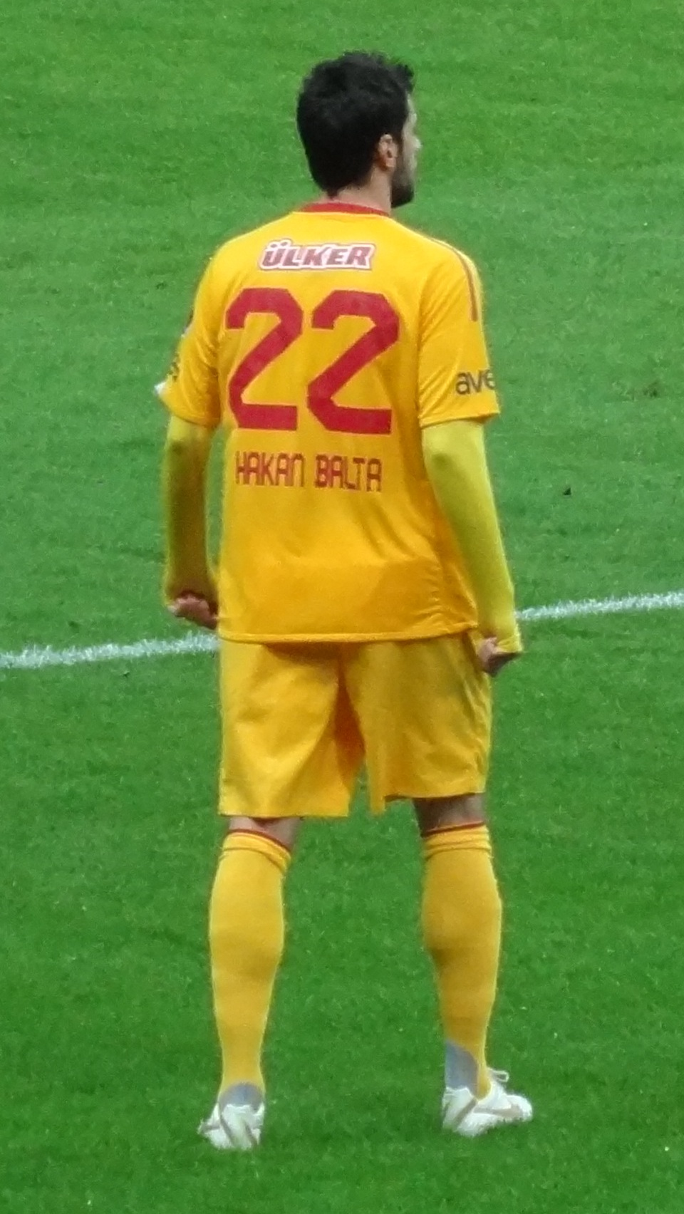 Hakan playing against Gaziantepspor